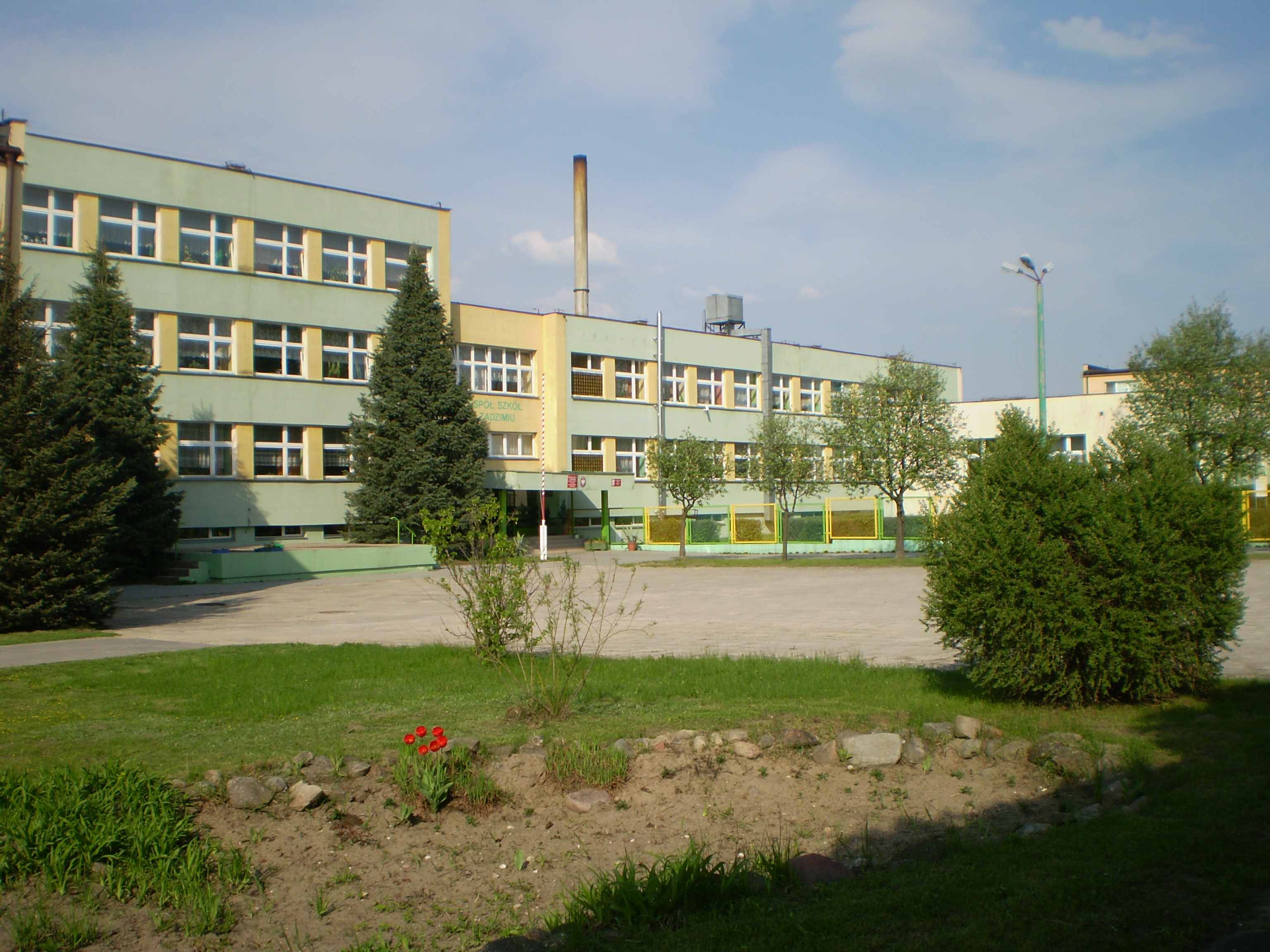 Zadzim